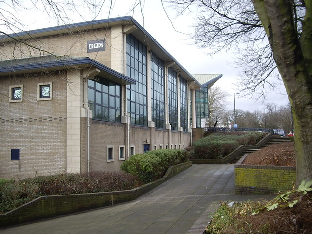 BBC Southampton, Broadcasting House